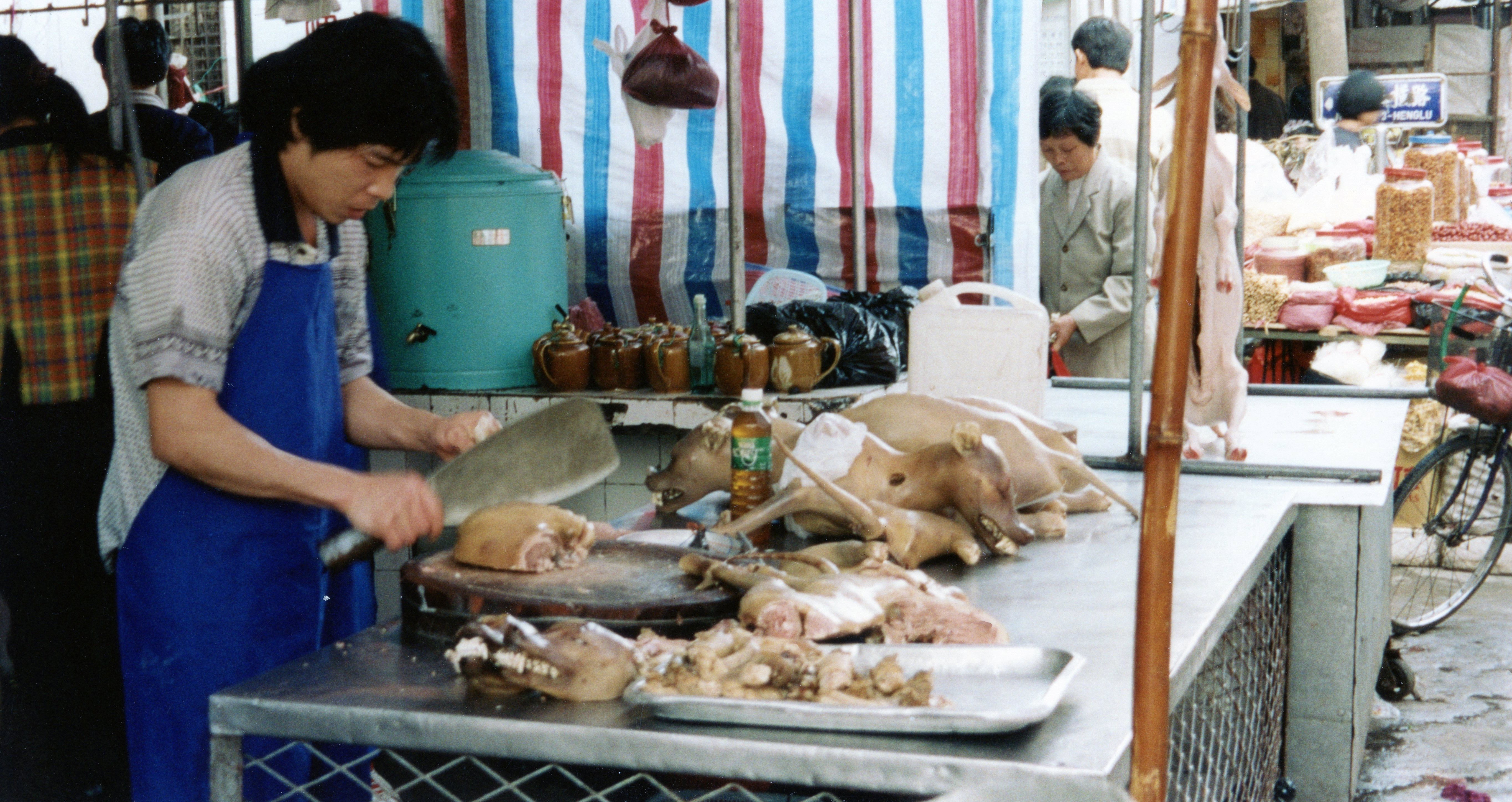 Dogs being butchered in a local market Guangdong, China 1999